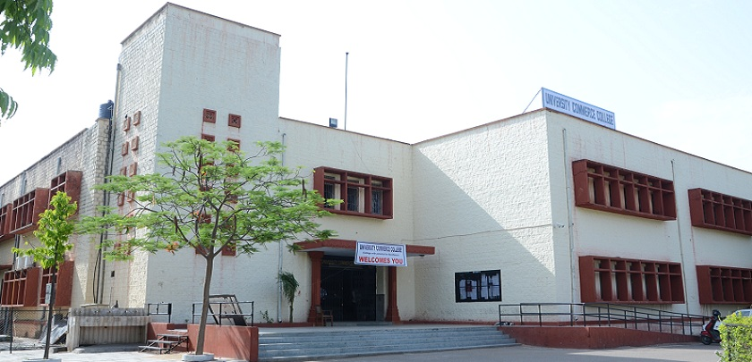 Commerce College Building, Jaipur